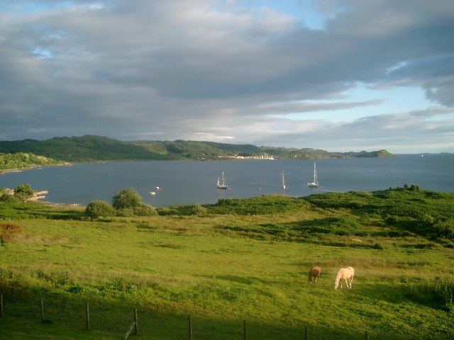 View of Loch Melfort from the Loch Melfort Hotel, Arduaine